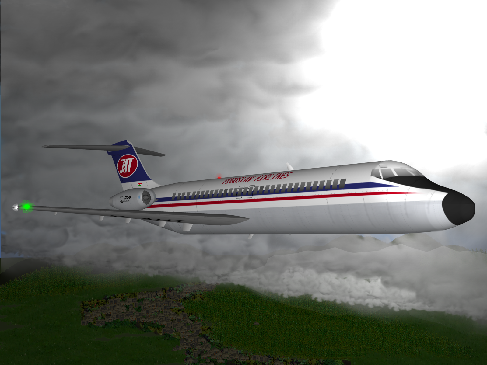 JAT Flight 367